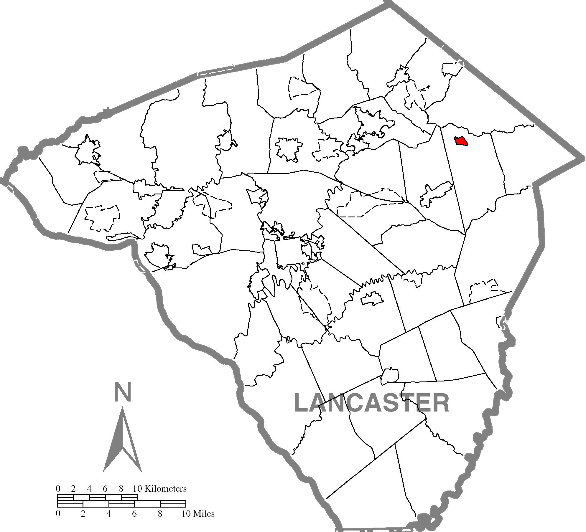 Highlighted Lancaster County map of Terre Hill.